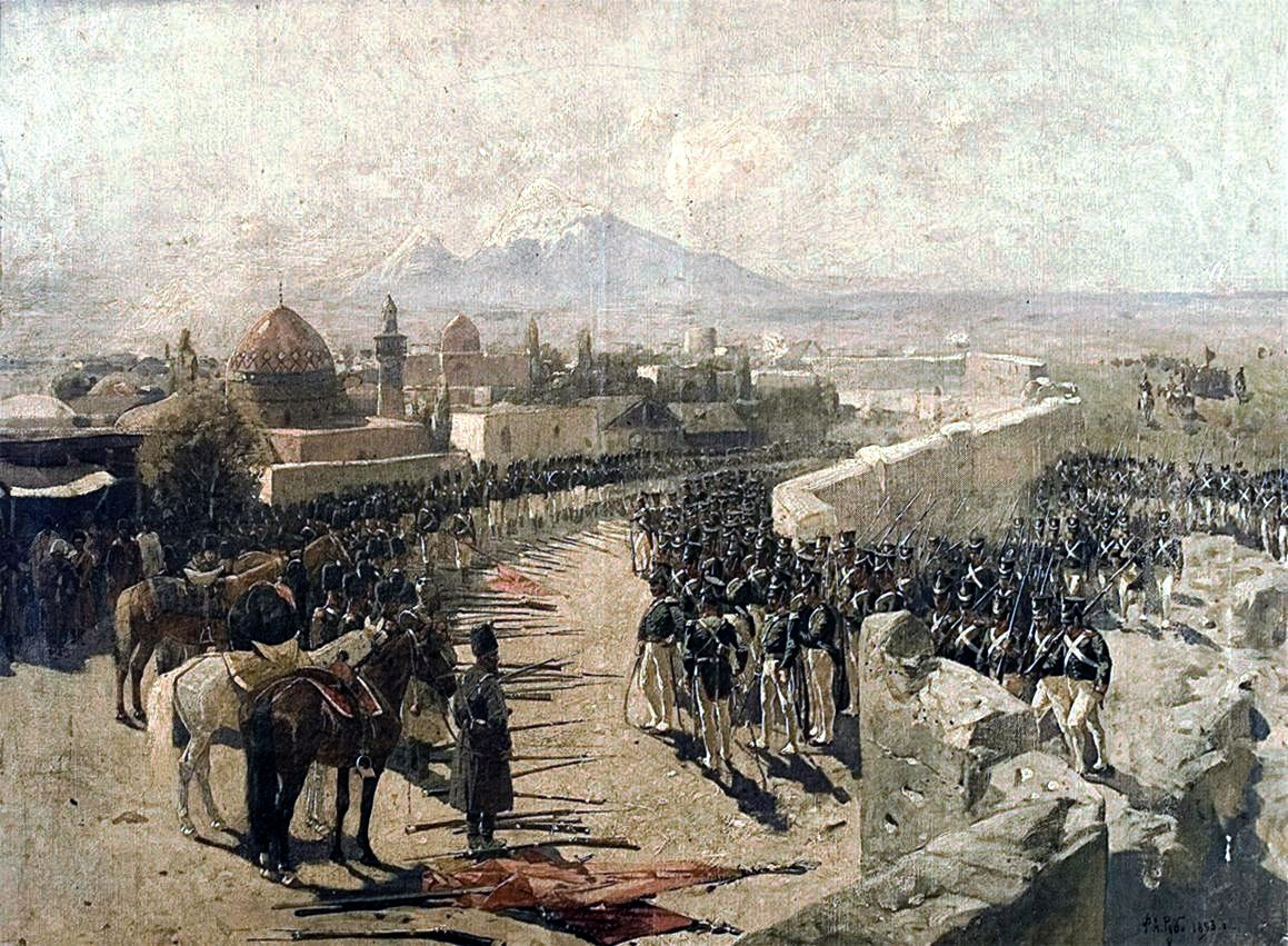 Yerevan fortress siege by forces of Tsarist Russia, Capture of Erivan Fortress by Russia, 1827 (by Franz Roubaud)